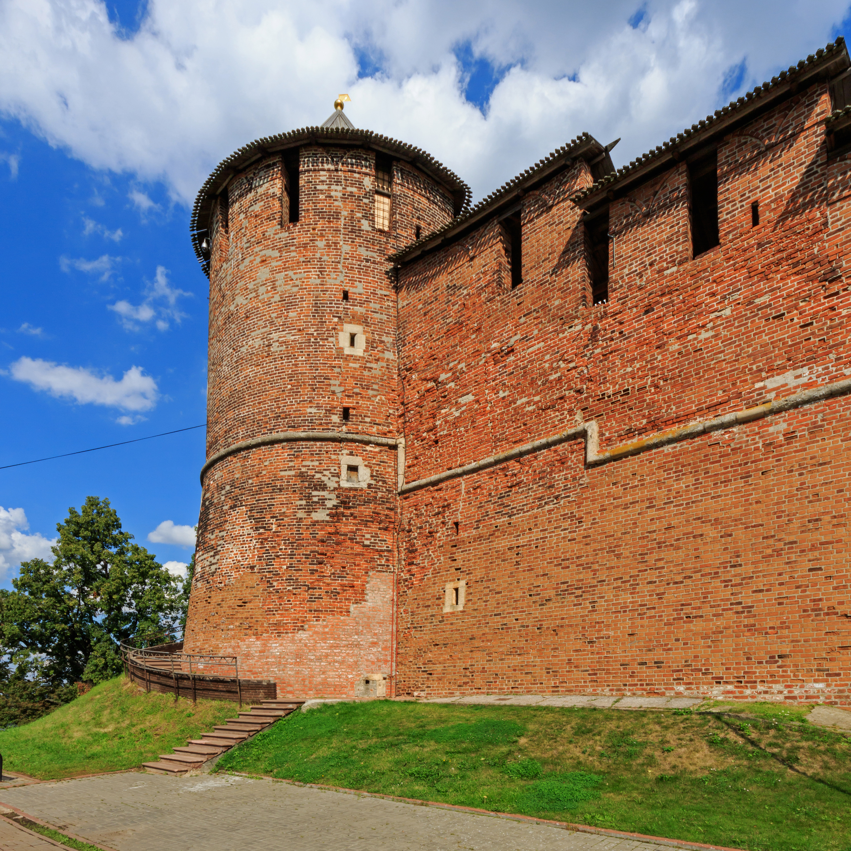 Severnaya (Northern) Tower of the Kremlin in Nizhny Novgorod, Russia